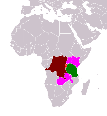 Rwanda and Burundi, with surrounding countries highlighted.